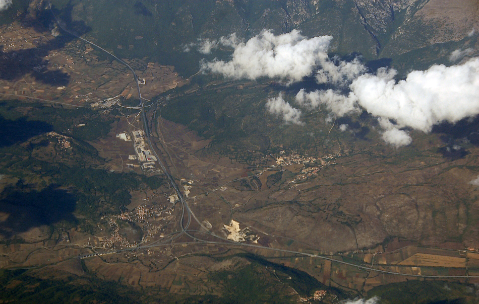 Aerial photographs